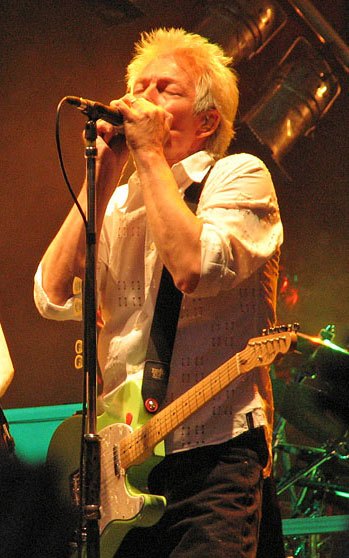 Andy Bown in Brunnsparken, Örebro, Sweden